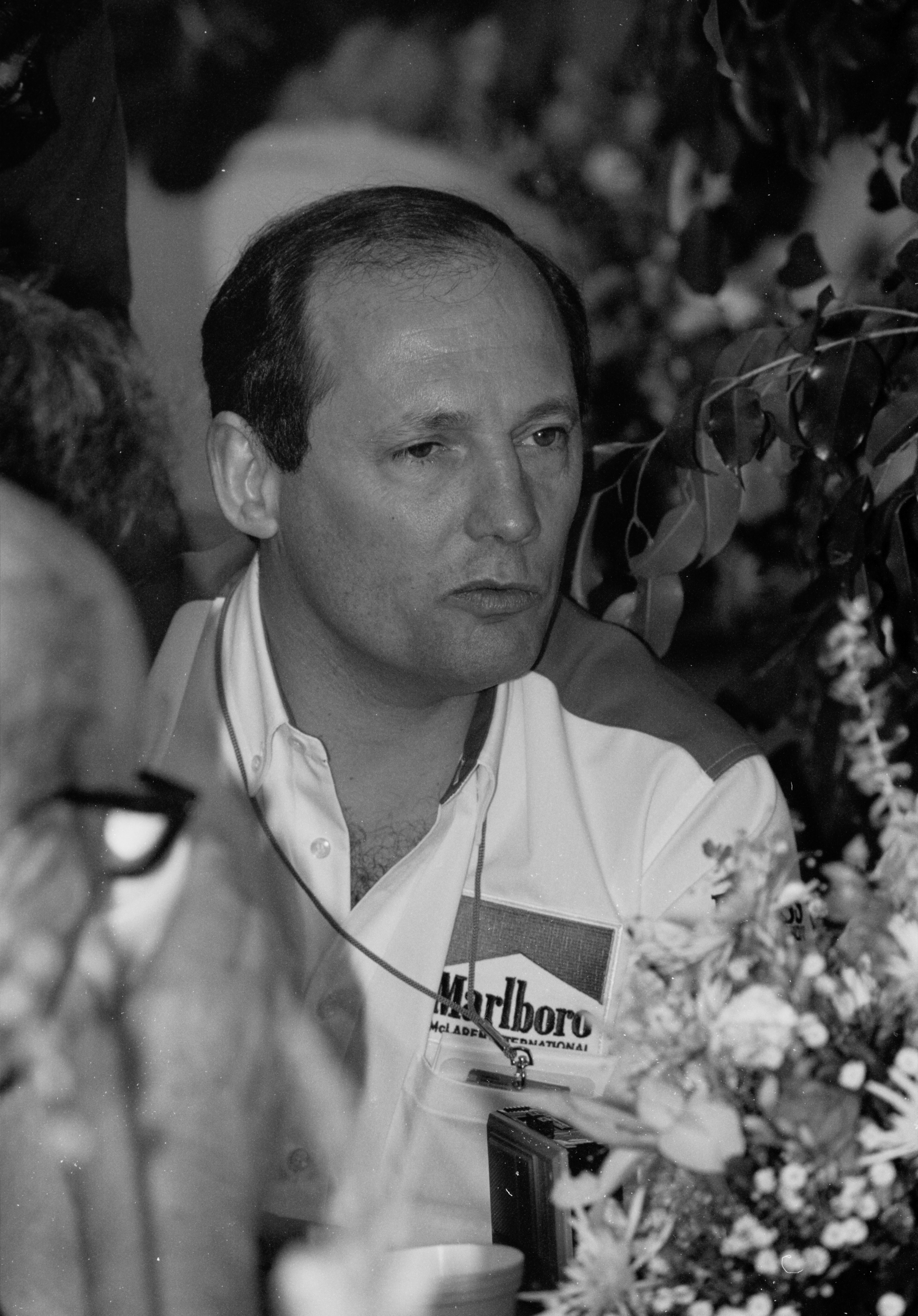 Ron Dennis at the 1990 United States Grand Prix.